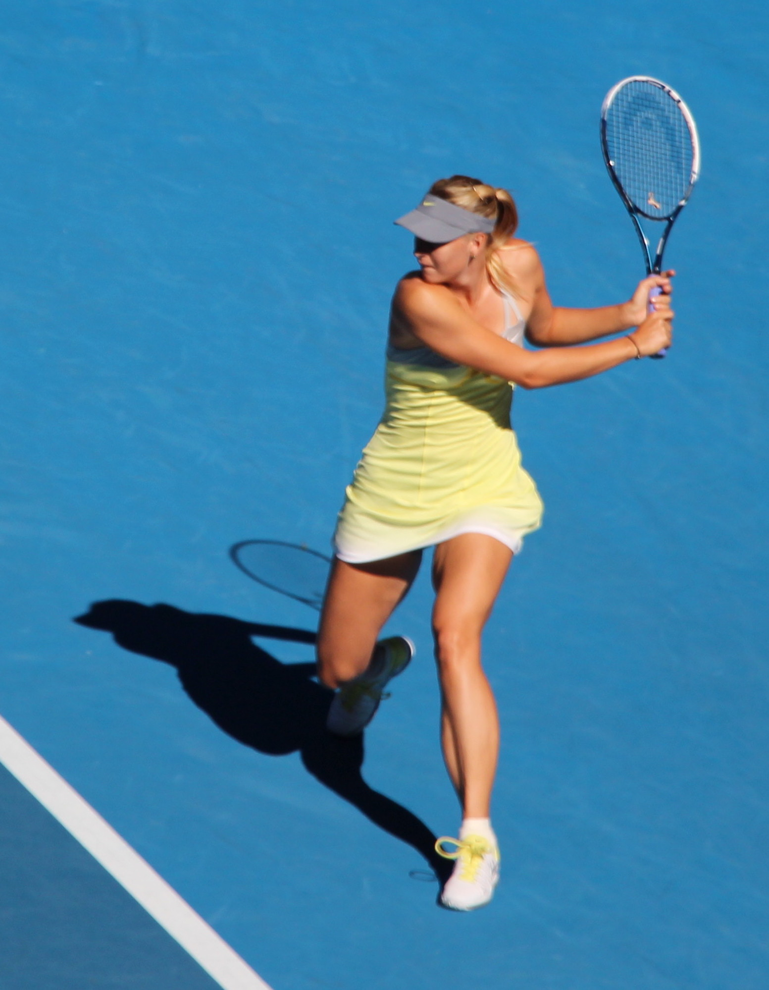 sharapova melbourne 2013